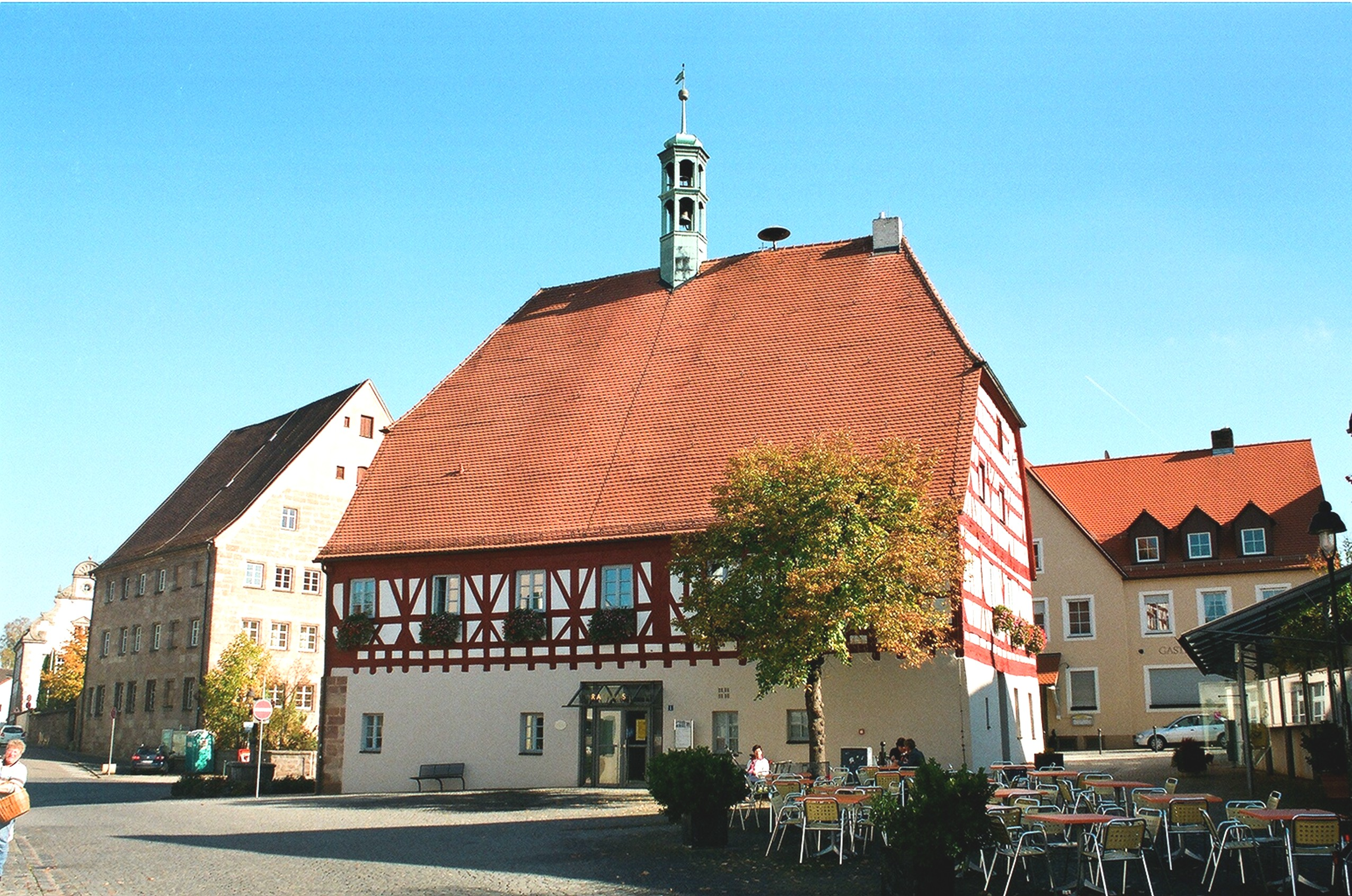 Hilpoltstein, the town hall